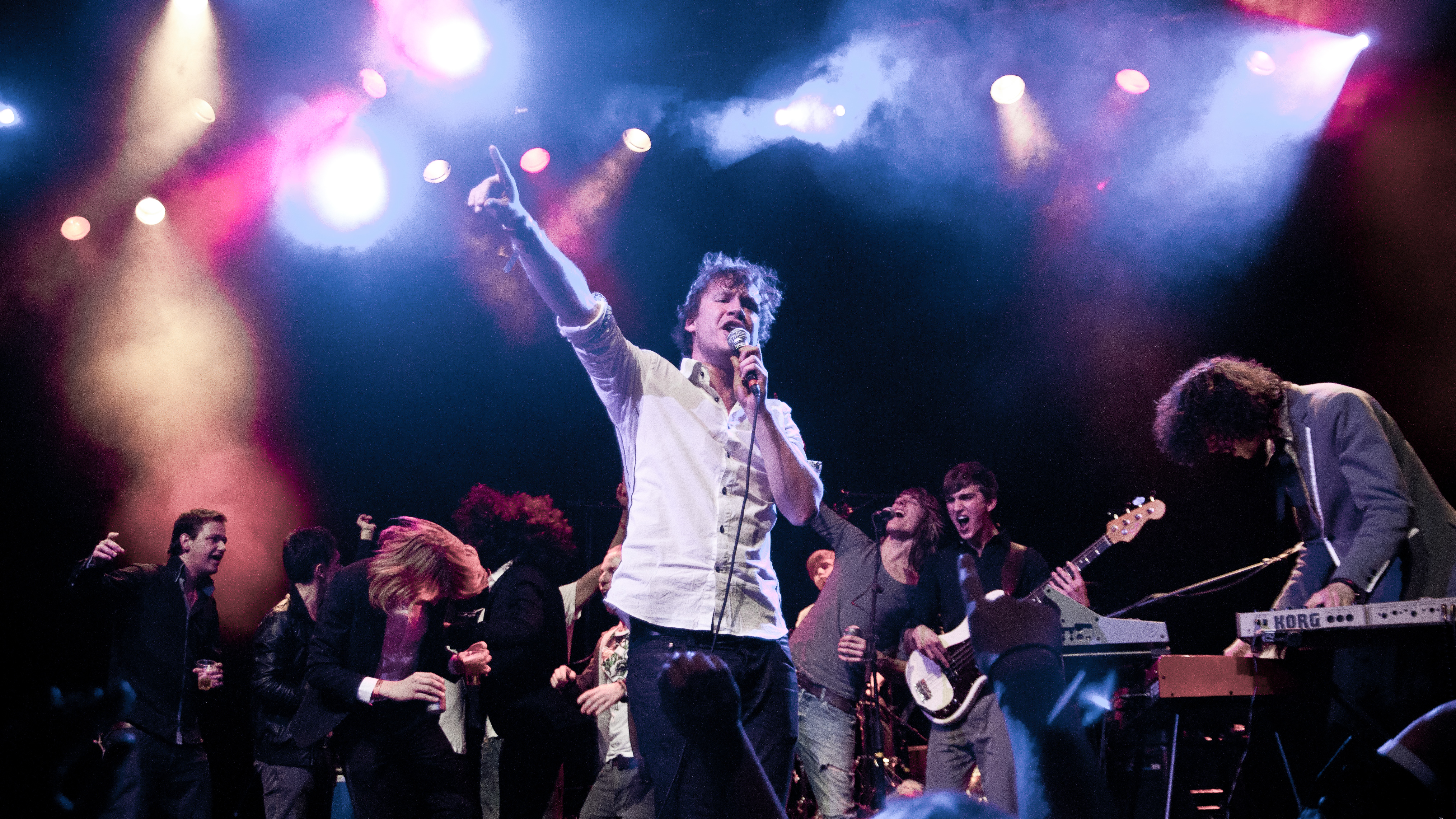 Handsome Poets and all other Serious Talents on stage to do a final song. Very cool. Watch their performance right here on YouTube. Serious Talent Festival organised on December 23rd in the Effenaar, Eindhoven to benefit 3FM's Serious Request 2010.